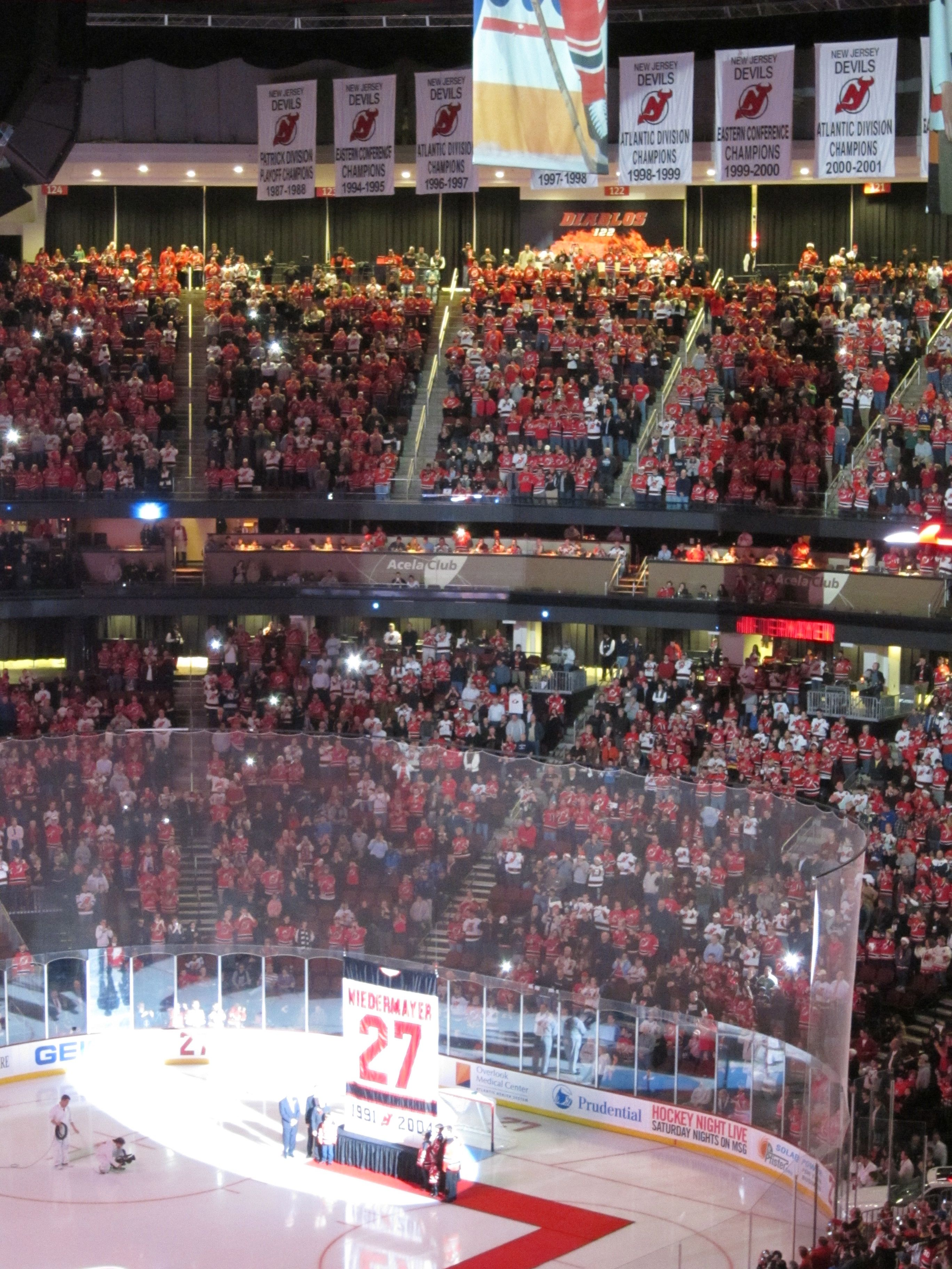 Scott Niedermayer's number being retired.